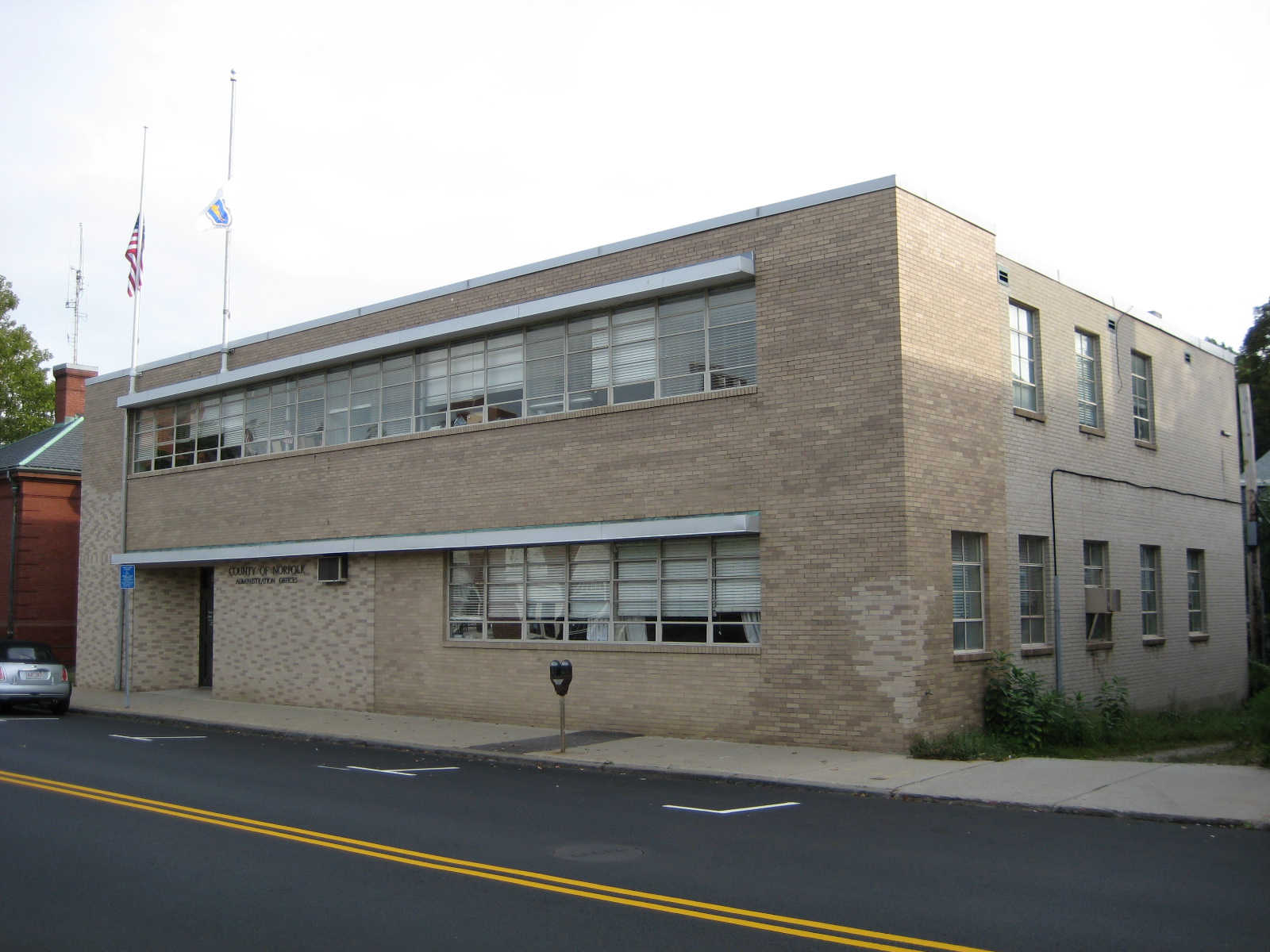 Norfolk County Commission building, Dedham, Massachusetts, USA